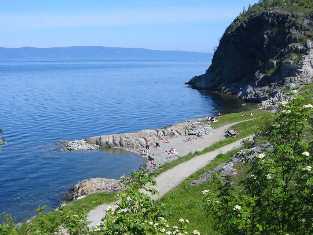 Korsvika and the broad Trondheimsfjord, western part of Ladestien, Trondheim. View towards northeast. Kjerringberget hilltop on the right. Picture taken by myself. June 11 2006. Orcaborealis.